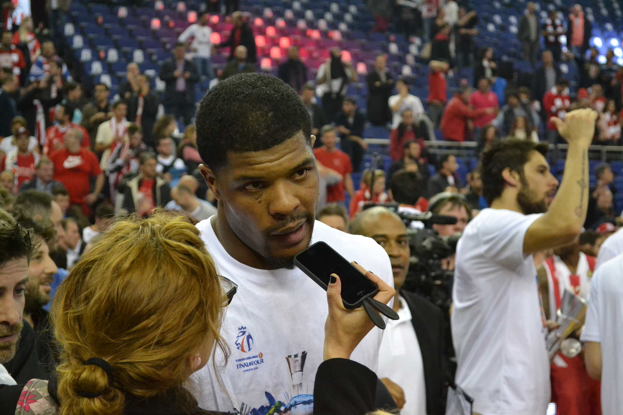 Kyle Hines at the Euroleague Final - Olympiacos VS Real Madrid. O2 Arena, London, May 12th 2013